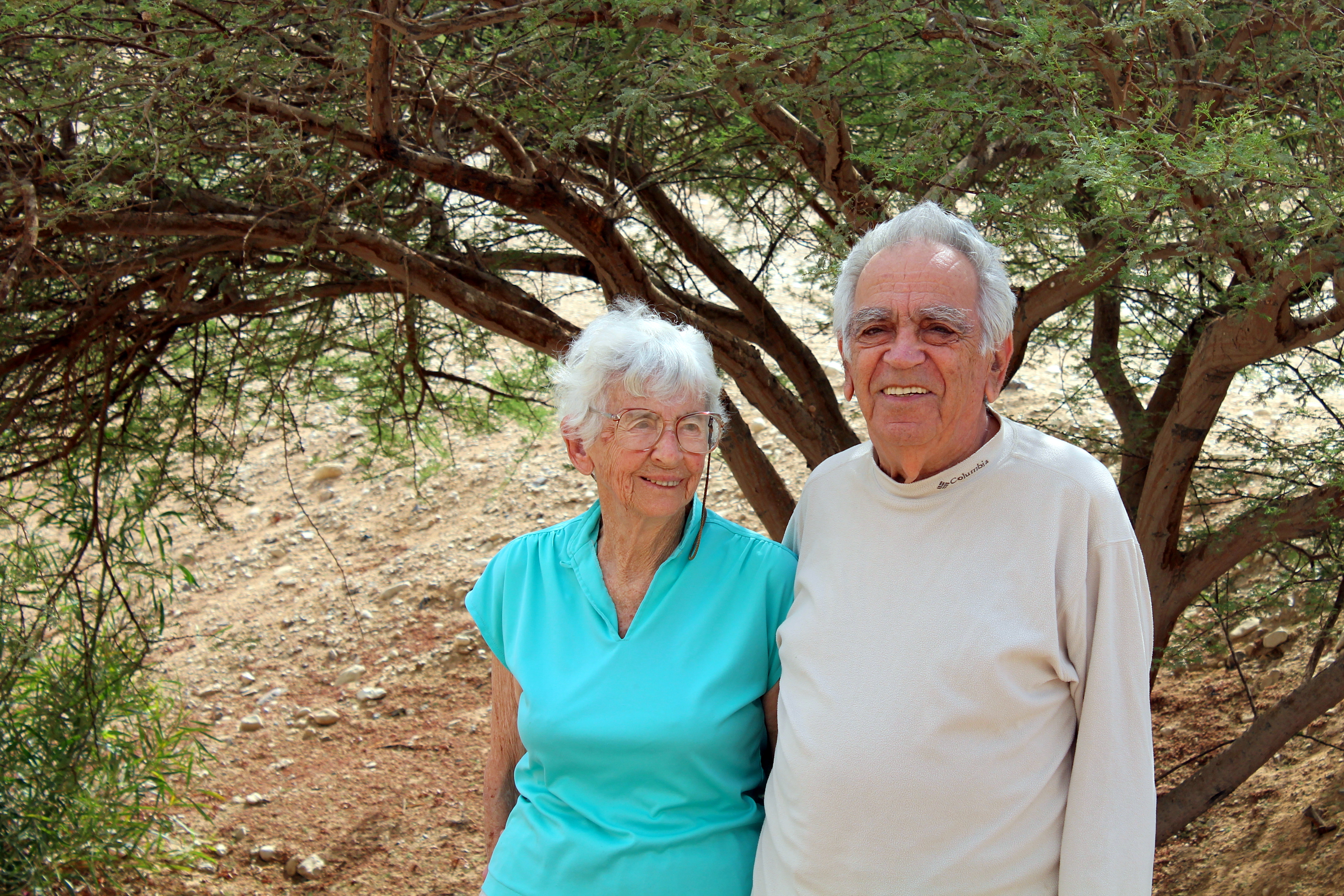 In the field